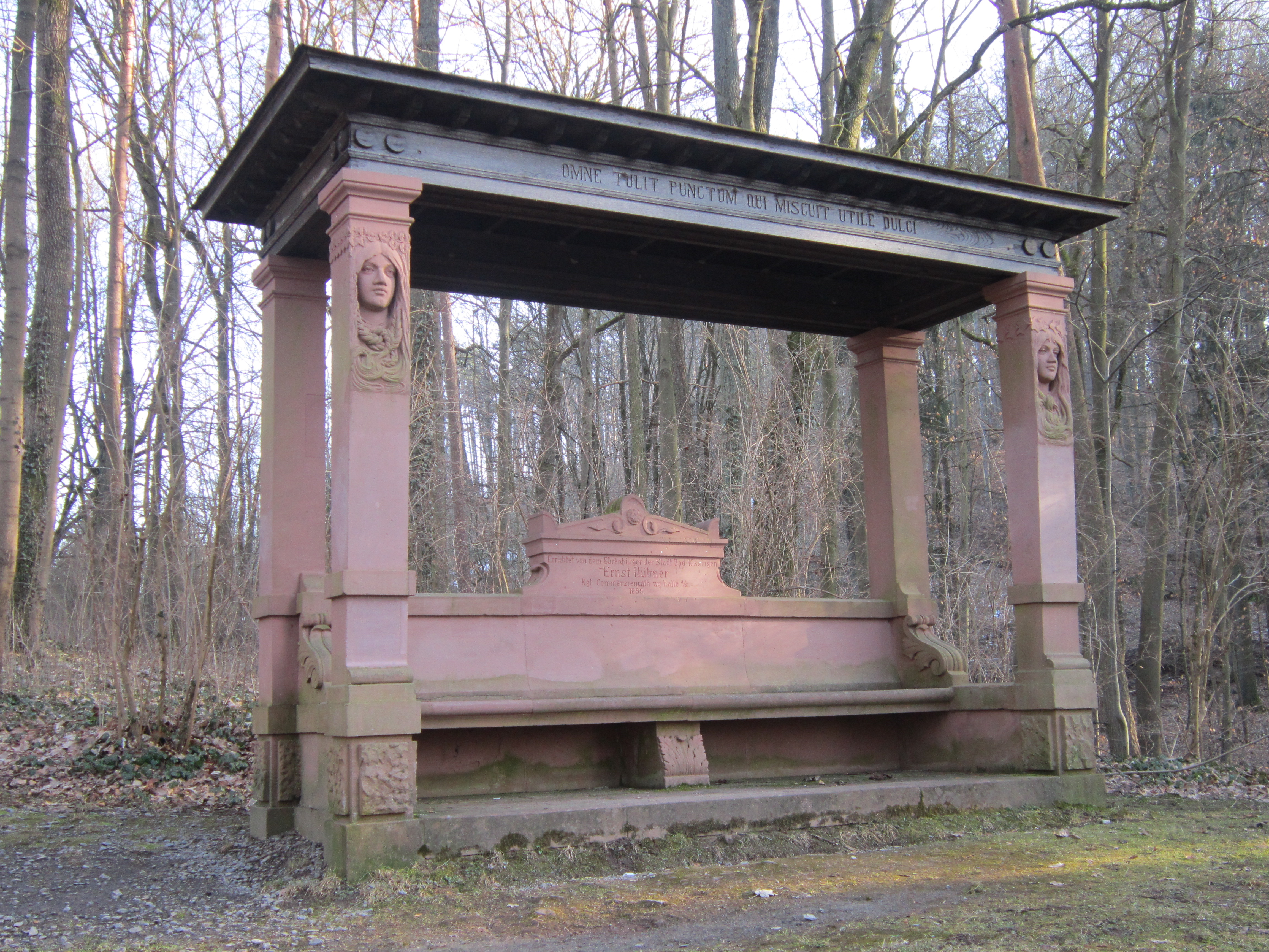 Hübner-Bank at the "Ballinghain" in Reiterswiesen, a quarter of the German spa town of Bad Kissingen in Lower Franconia (Bavaria).